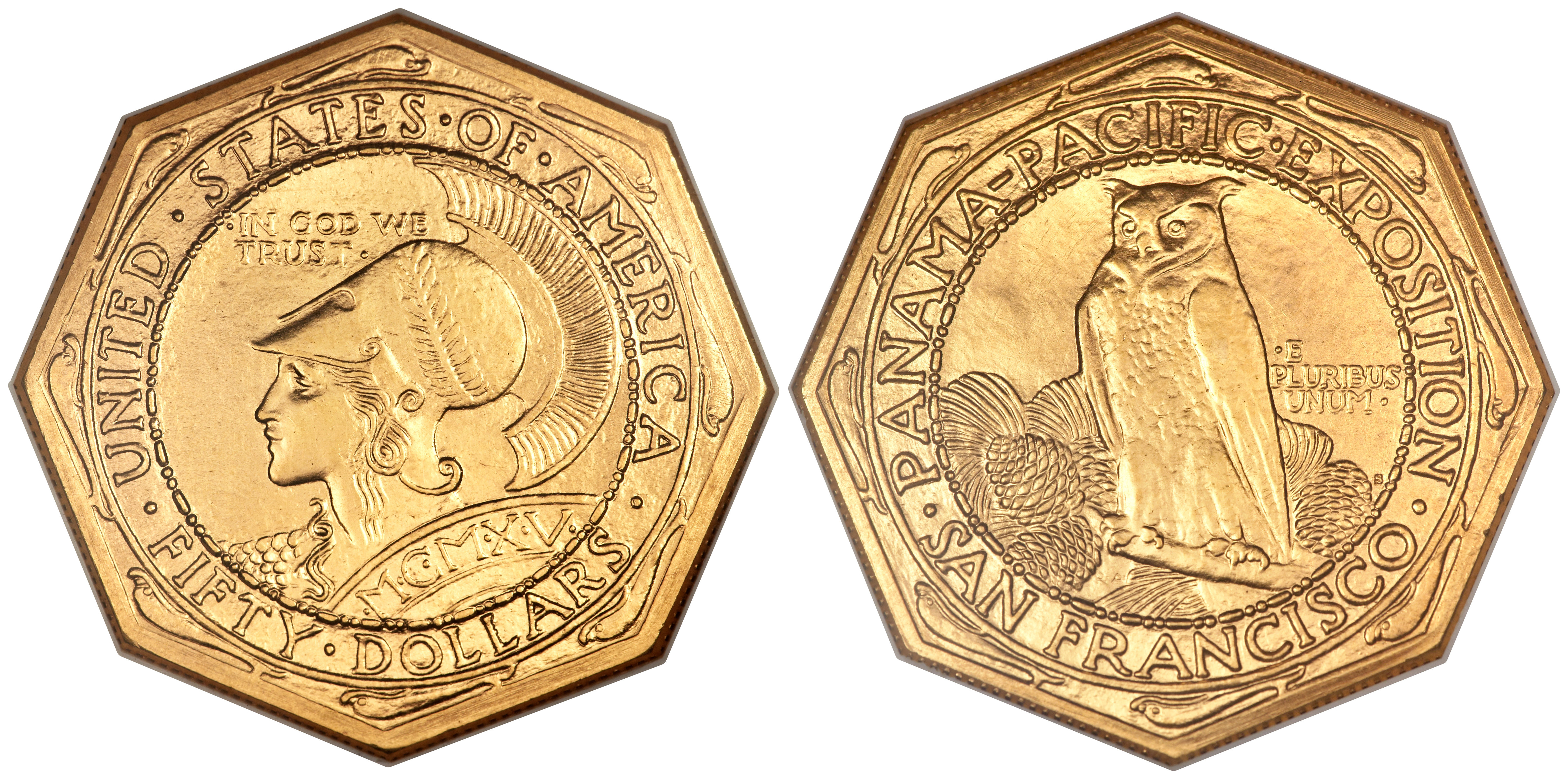 1915-S $50 Panama-Pacific 50 Dollar Octagonal (1216-4458)